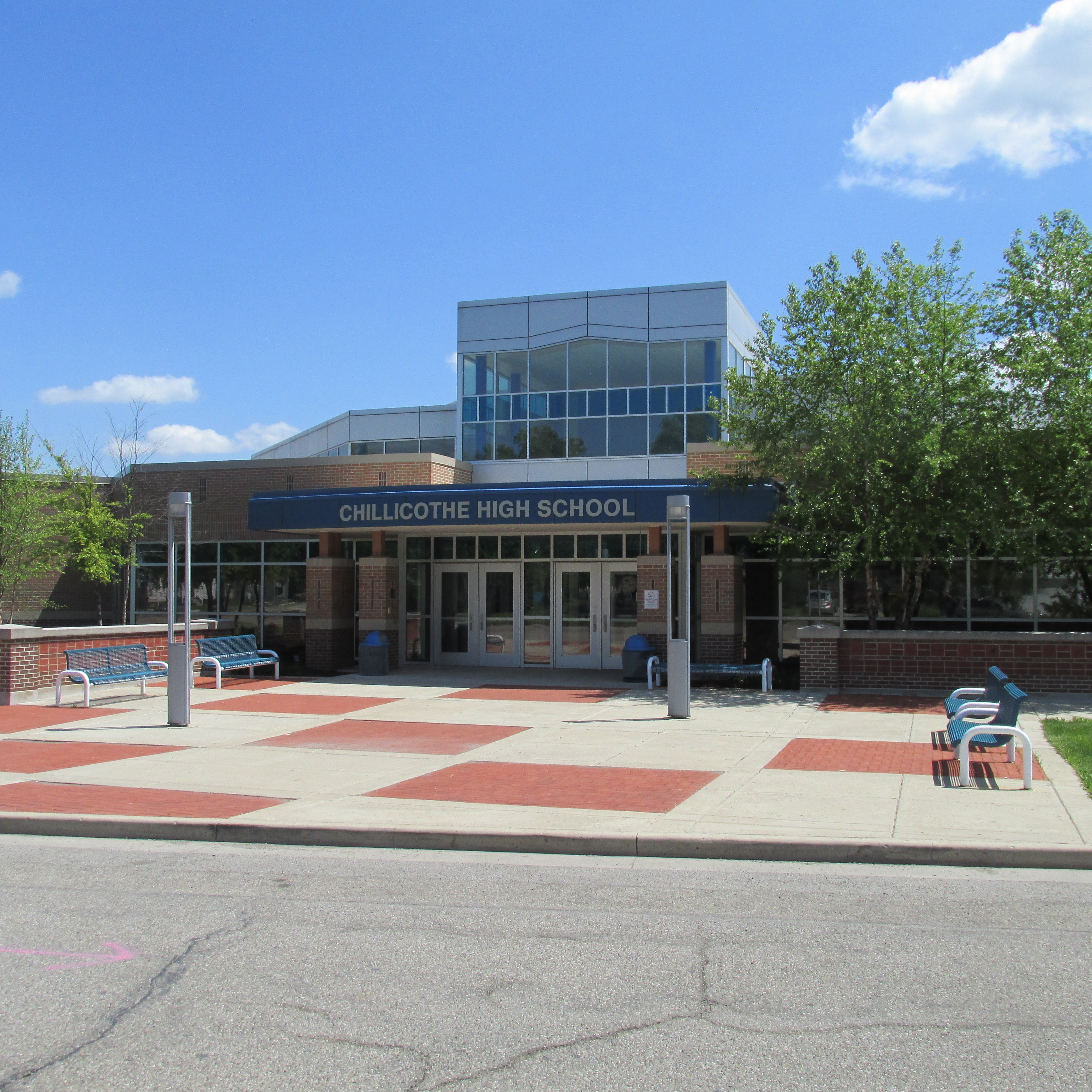 Chillicothe High School located in Chillicothe, Ohio.